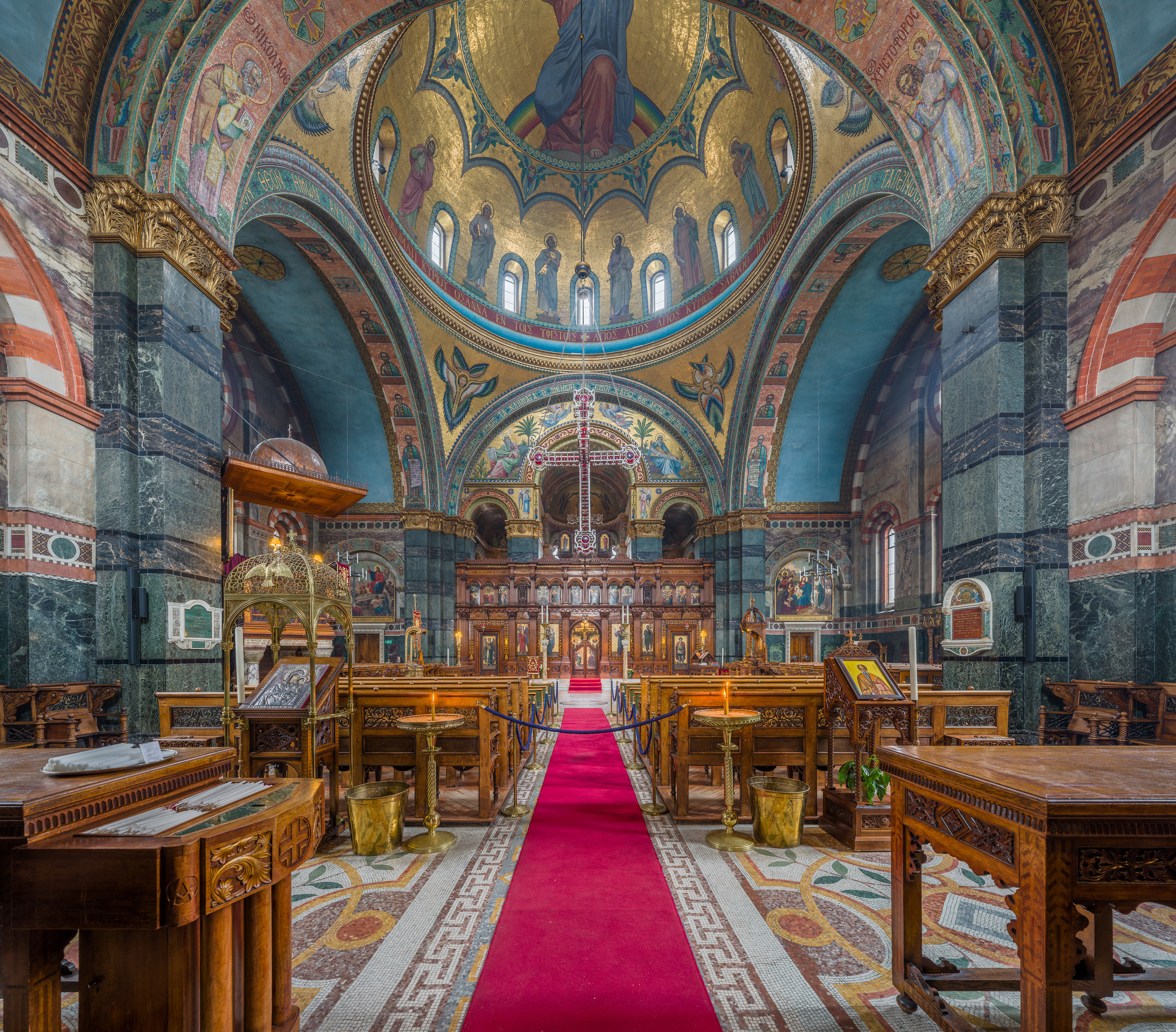 The interior of St Sophia's Greek Orthodox Cathedral in Paddington, London, England.